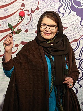 Homa Rousta in the opening ceremony of 32th Fajr Film Festival.